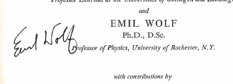 An example of a signature of Dr. Emil Wolf